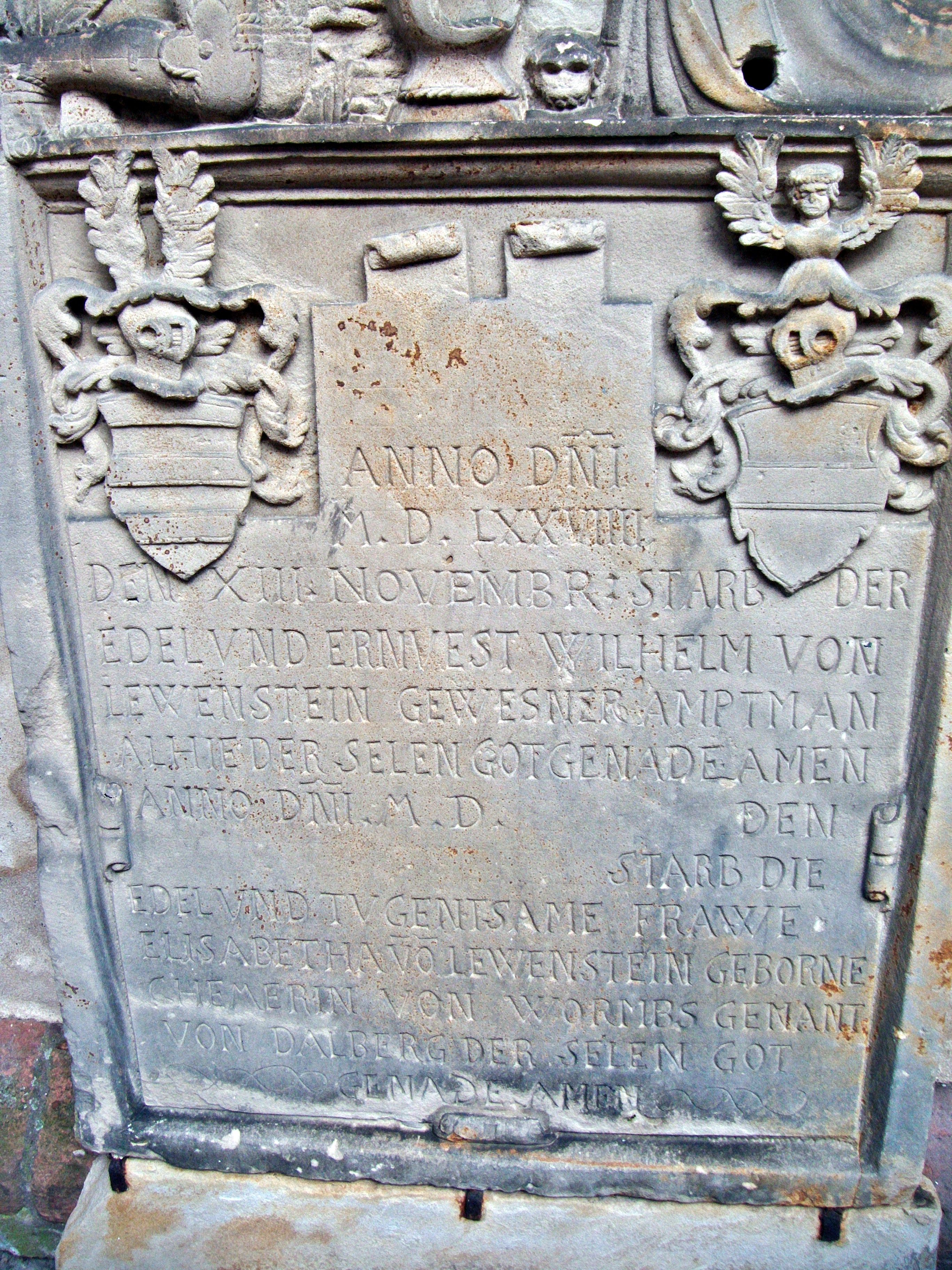 Wilhelm von Löwenstein († 1579), Epitaph, Pfarrkirche St. Ulrich, Deidesheim